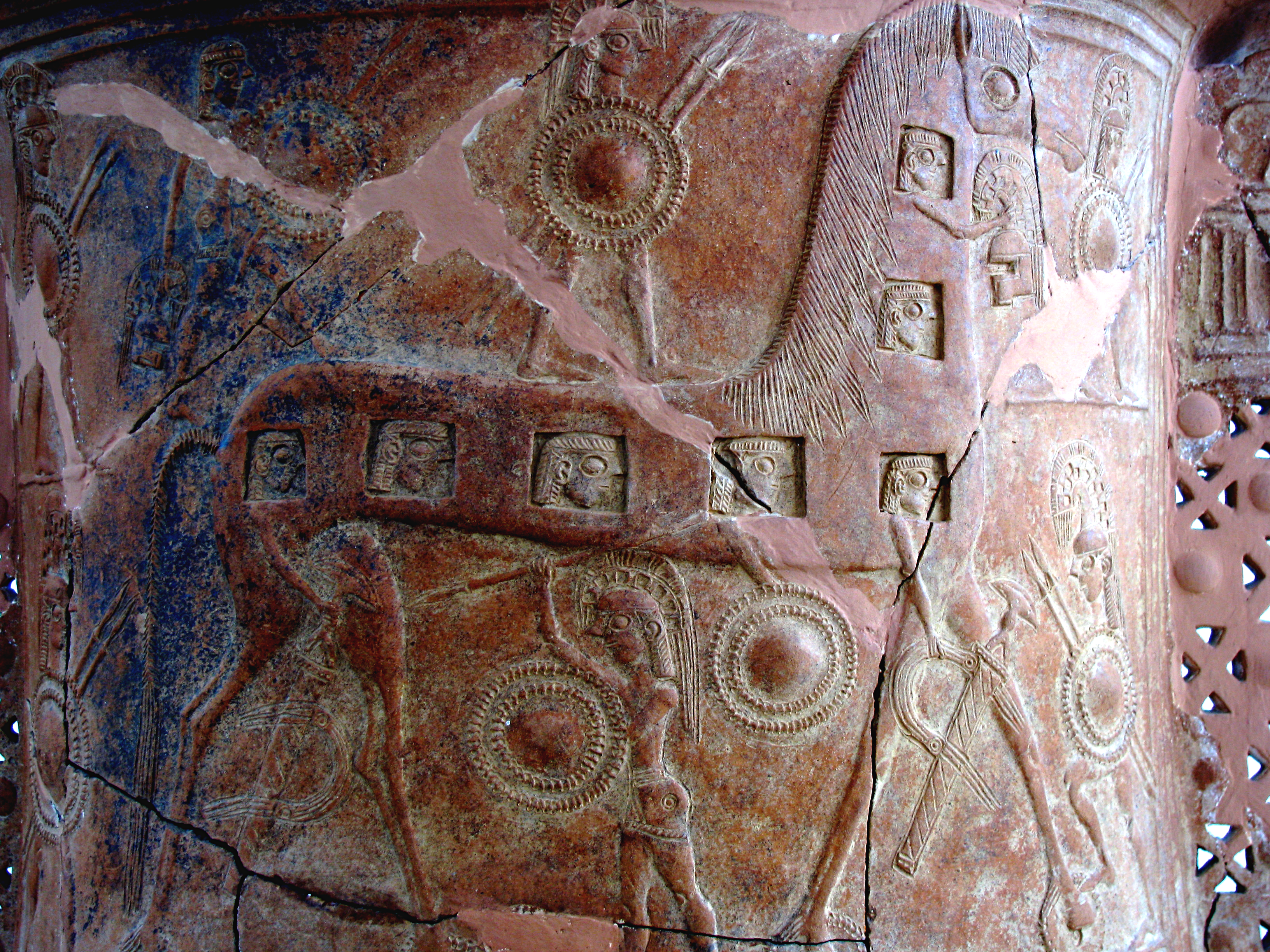 Detail of the Mykonos pithamphora showing an early depiction of the Trojan Horse. This vessel was produced ca. mid 7th century BCE on the island of Tinos and was found at Chora on the island of Mykonos. Now at the Archaeological Museum, Mykonos. The original image was photographed and uploaded by Travellingrunes on Flickr. This version has been edited for better color and clarity.